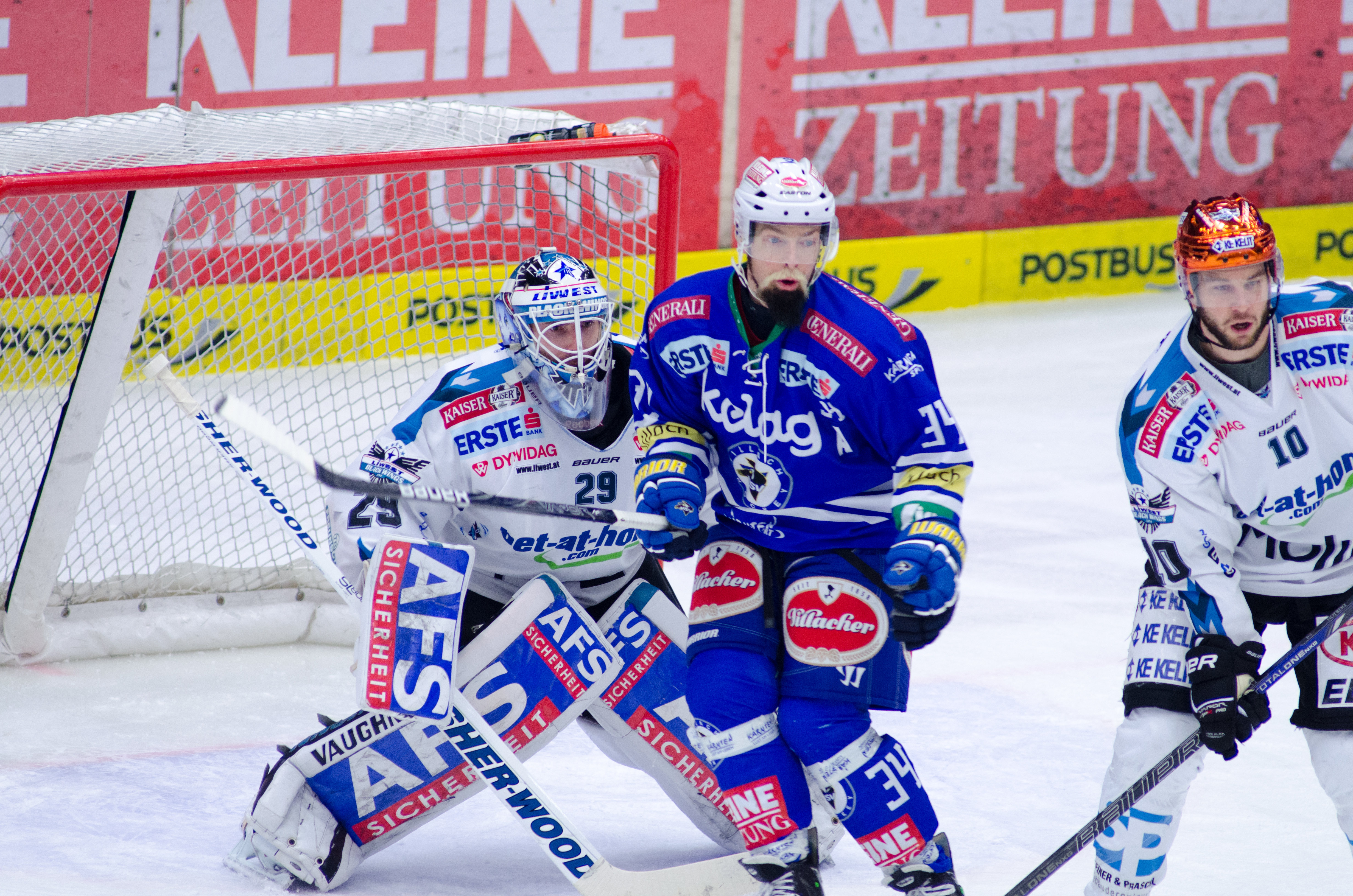 Michael Ouzas (Blackwings #29), Markus Peintner (EC VSV, #34) Marc-Andre Dorion (Blackwings #10), 24.11.2013, Stadthalle Villach, EC VSV vs. EHC Liwest Black Wings Linz // frostworx Pictures © 2013, PhotoCredit: frostworx / Alex Micheu